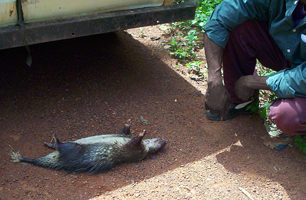 African brush-tailed porcupine (Atherurus africanus) being sold for meat in Cameroon's East Province.